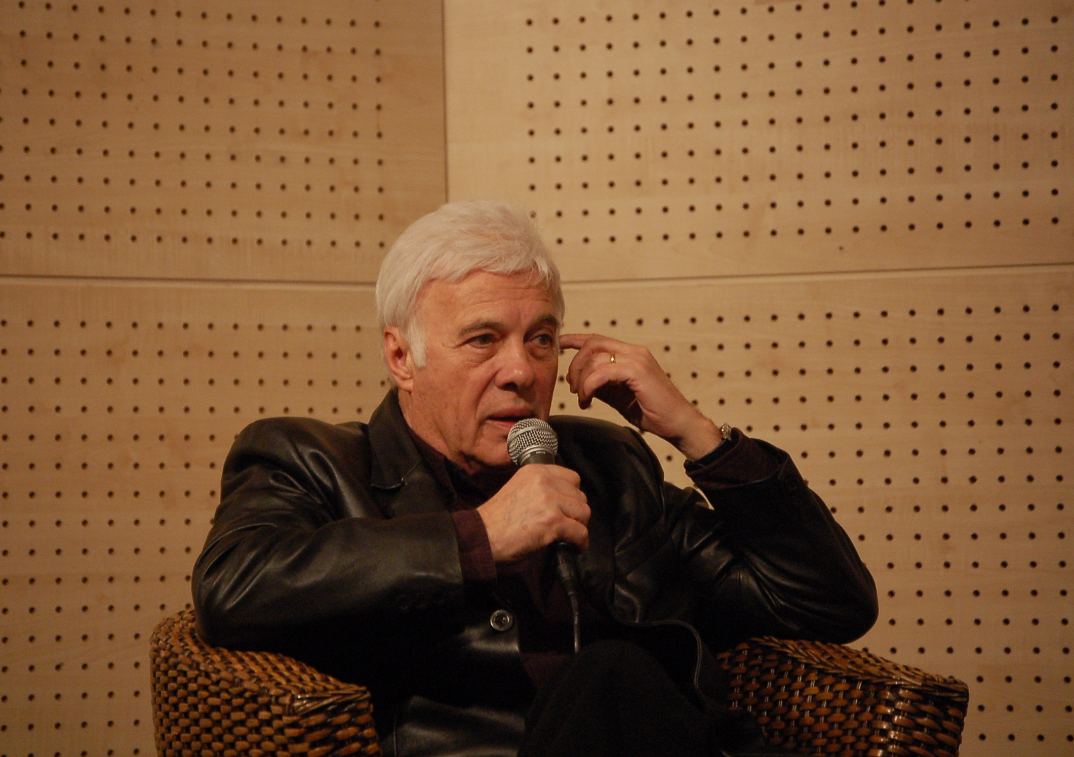 French comedian Guy Bedos in a presentation of his book "Le jour et l'heure" - 19 january 2009